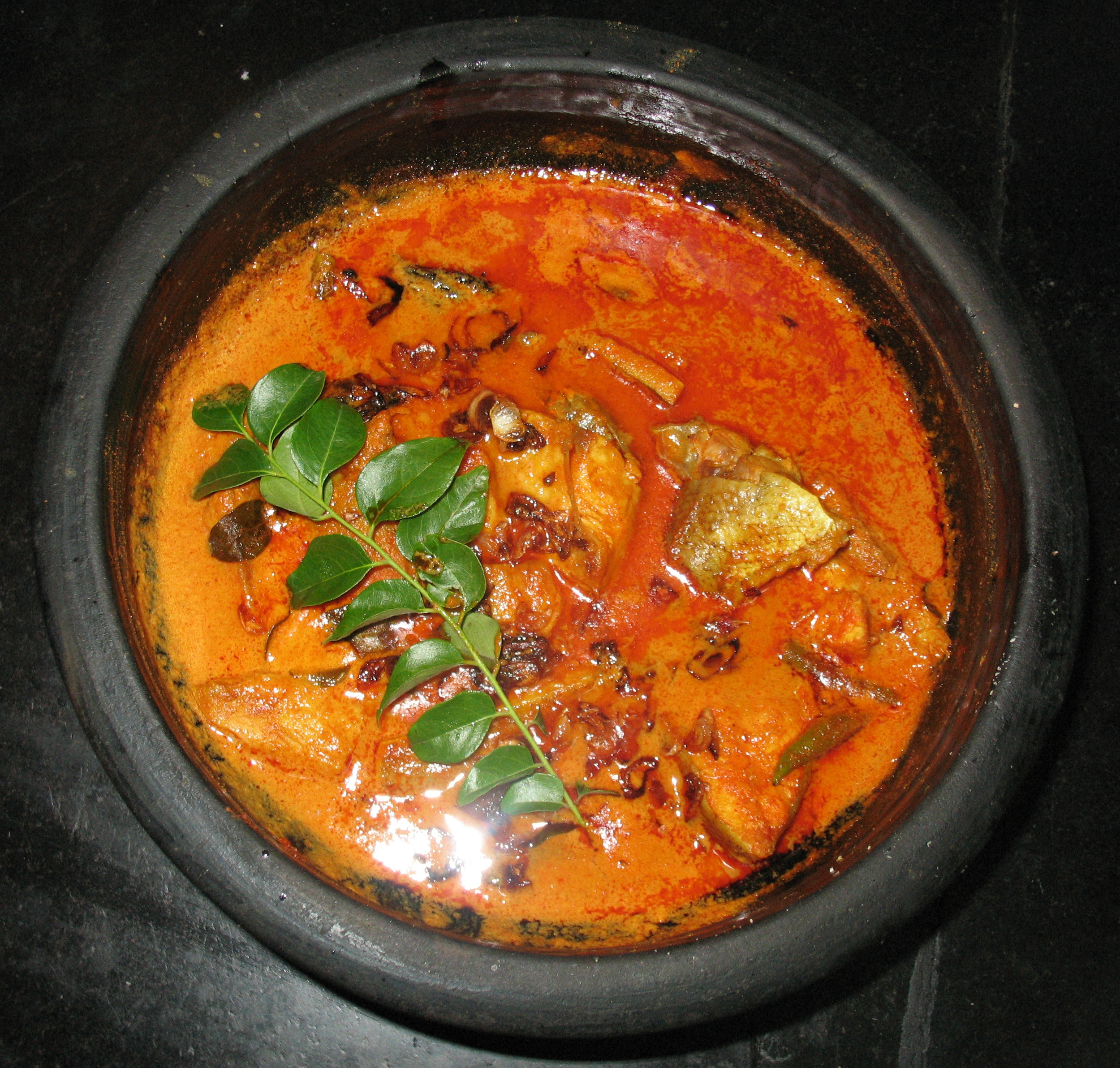 Fish Curry prepared in Kerala style. its prepared in a pot mad of clay (Manchatti). Should keep the curry for a day, it will be Yammy!! (Cropped version.)